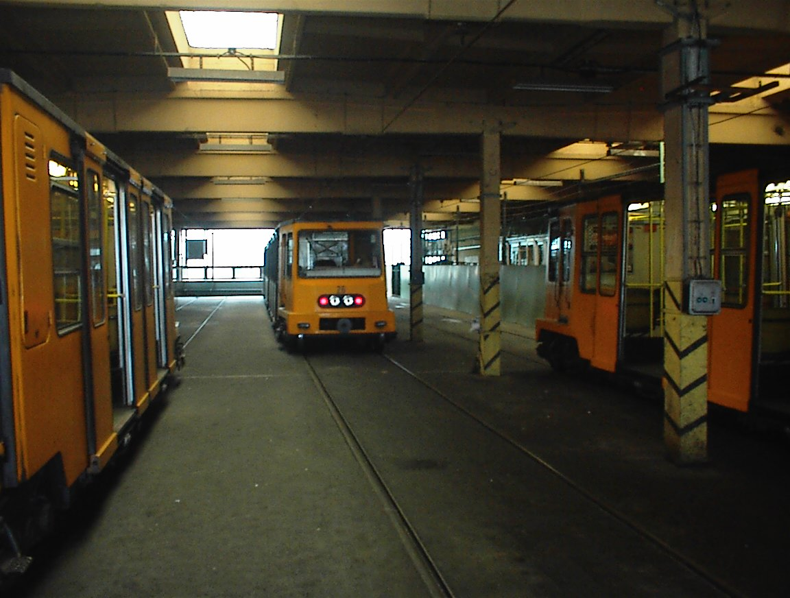 Ganz Articulated train on the Budapest Millennium Underground